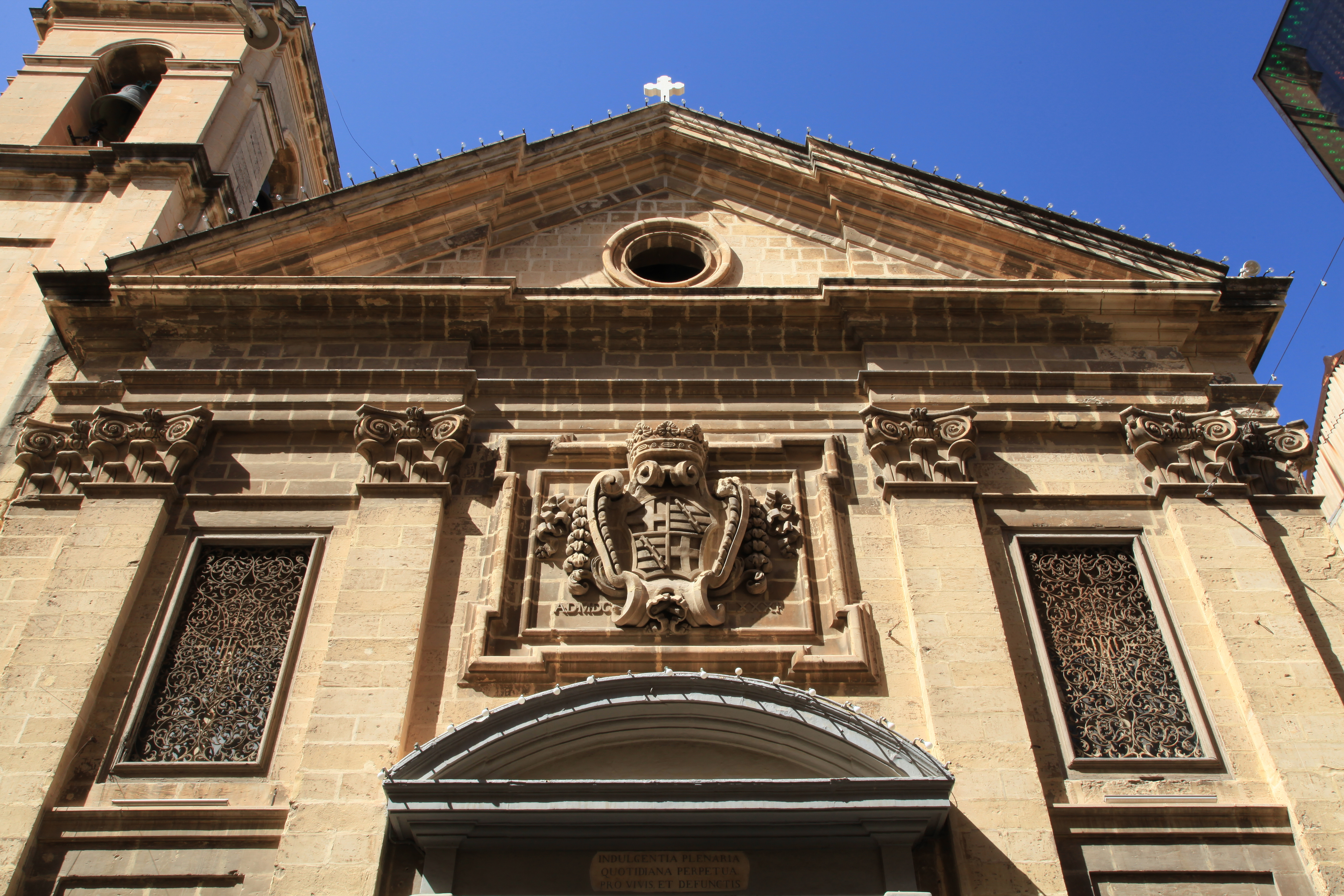 Church of St. Francis of Assisi, Triq Melita in Valletta, Malta